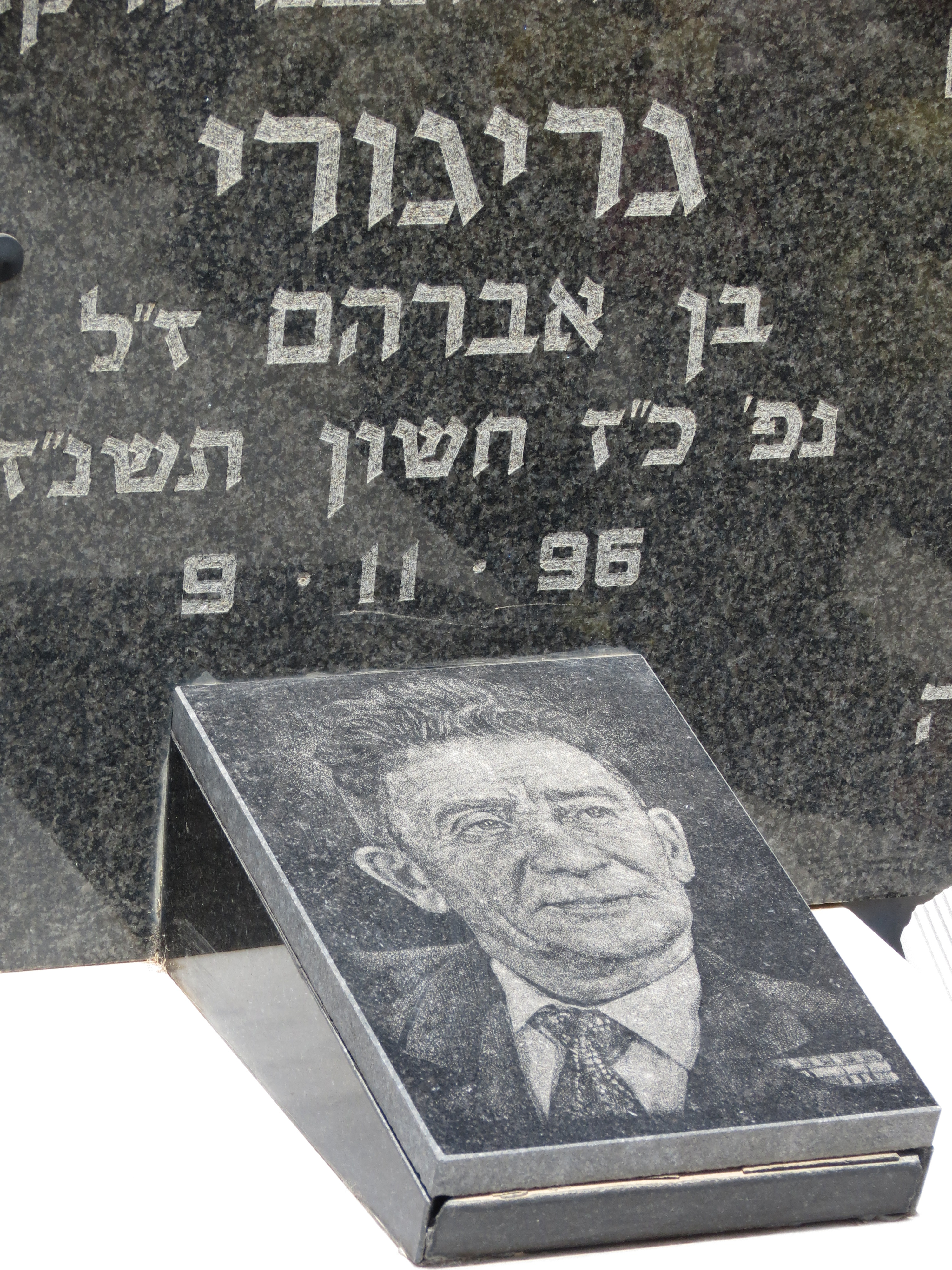 Grigory Abramovich Bogorad tomb, Migdal ha-Emeq